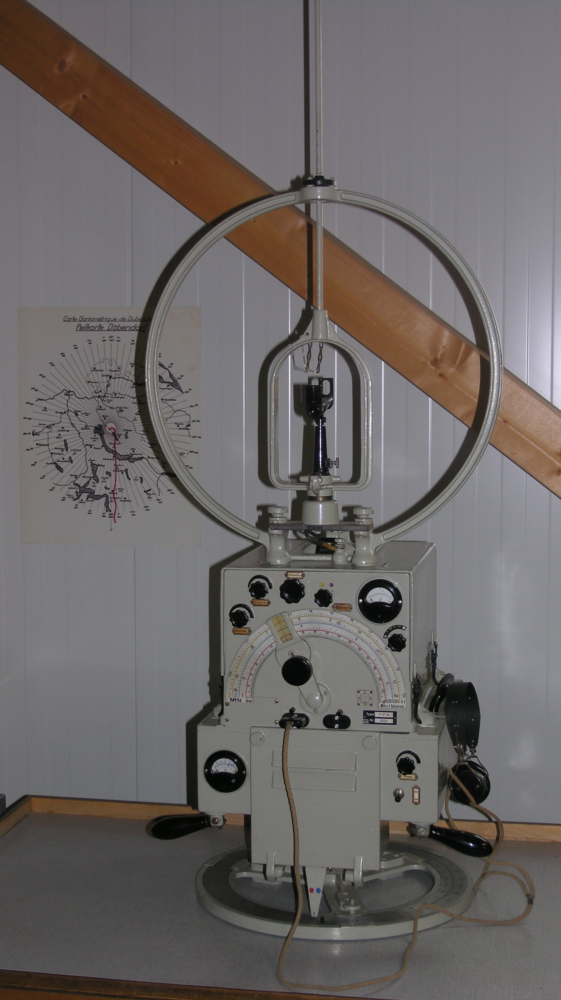 Pelengator (radio direction finder).